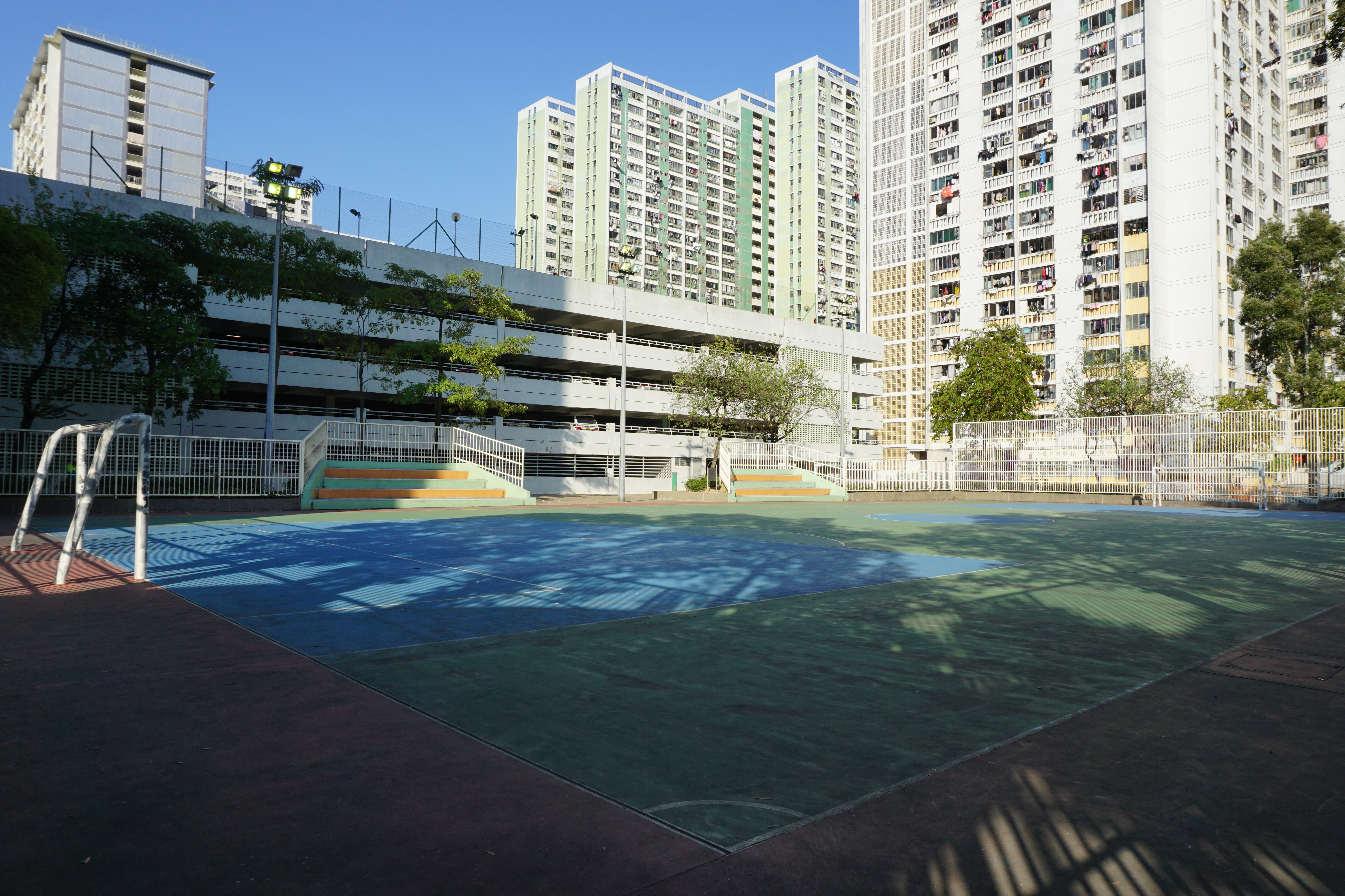 Yau Oi Estate in Tuen Mun, Hong Kong.